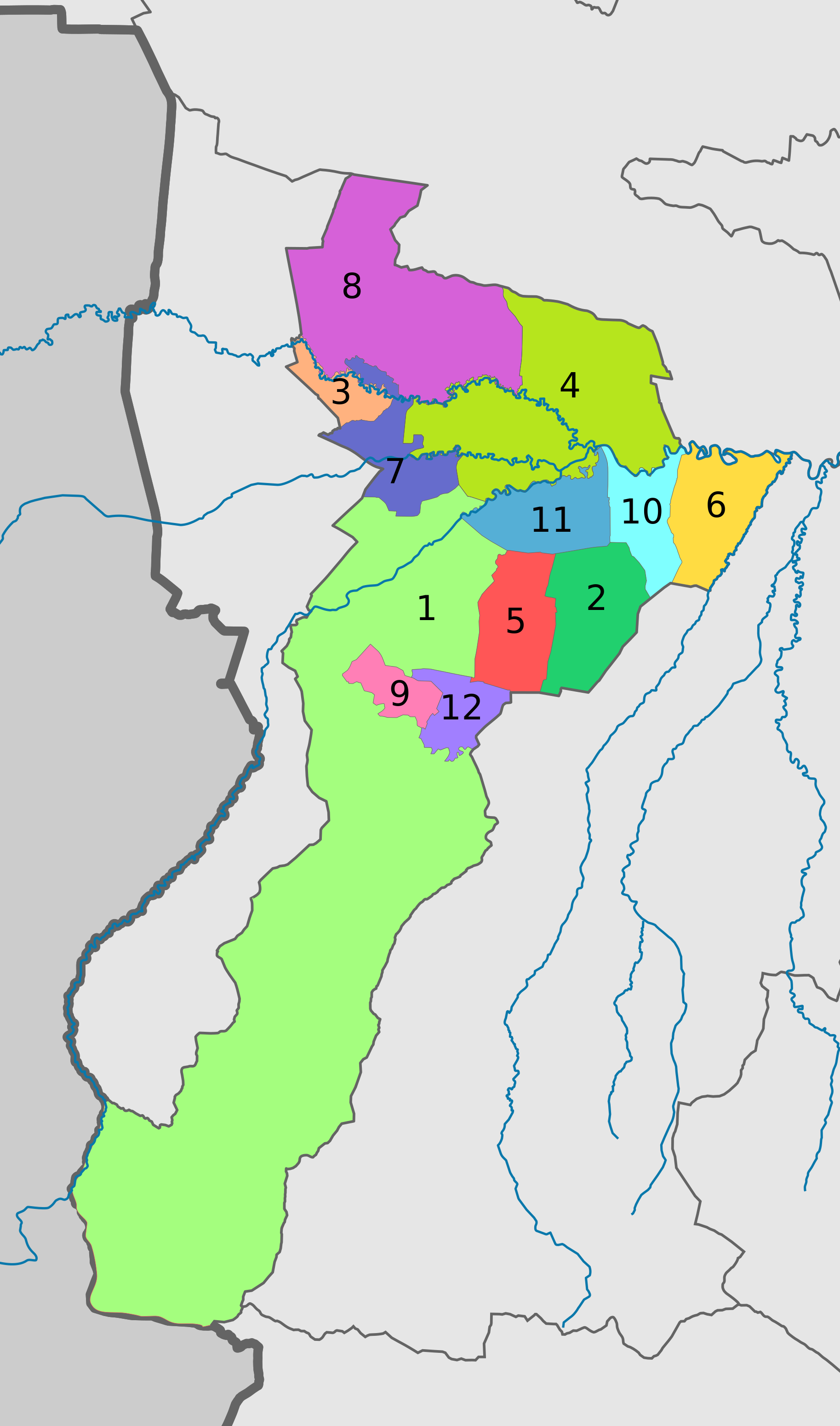 Map of Achkhoy-Martanovsky District, Chechnya with rural settlements to 2019 September 8